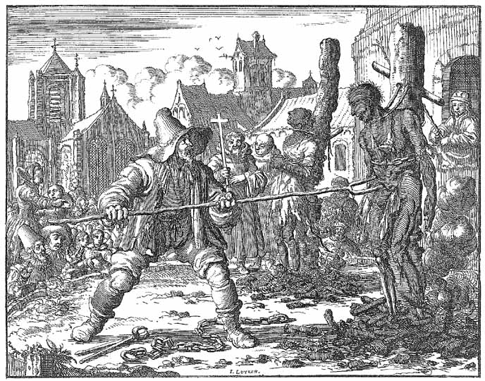 Execution of David van der Leyen and Levina Ghyselins (1554)